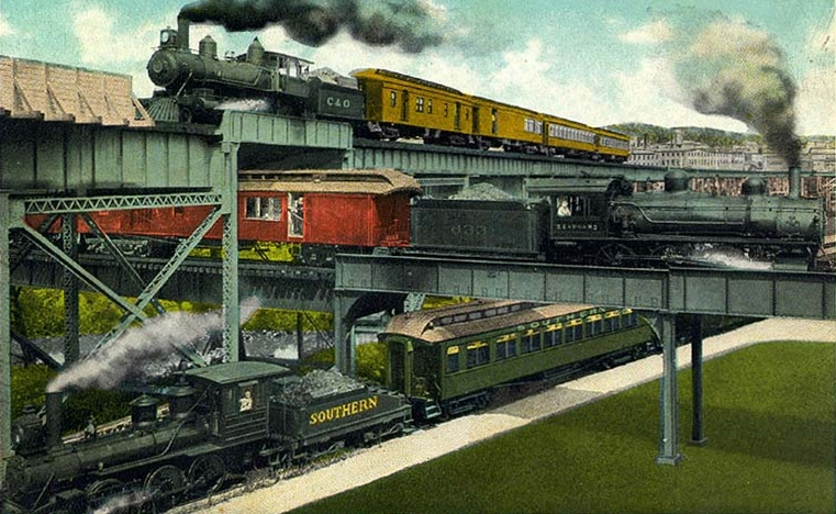 'Is Two over one Railroad Fare?' (Sixteenth and Dock), Richmond, Va. This unique photograph presents to view the only point in the world where three trunk line trains cross each other at the same time, and over their separate tracks. At the top is shown a passenger train of the C. & O. Railway leaving Richmond for the upper James River Valley just beneath it a train of the S.A.L. Railway leaving the Main Street (Union) Deport for the South, and on the ground a train of the Southern Railway coming into Richmond from West Point on the York River.